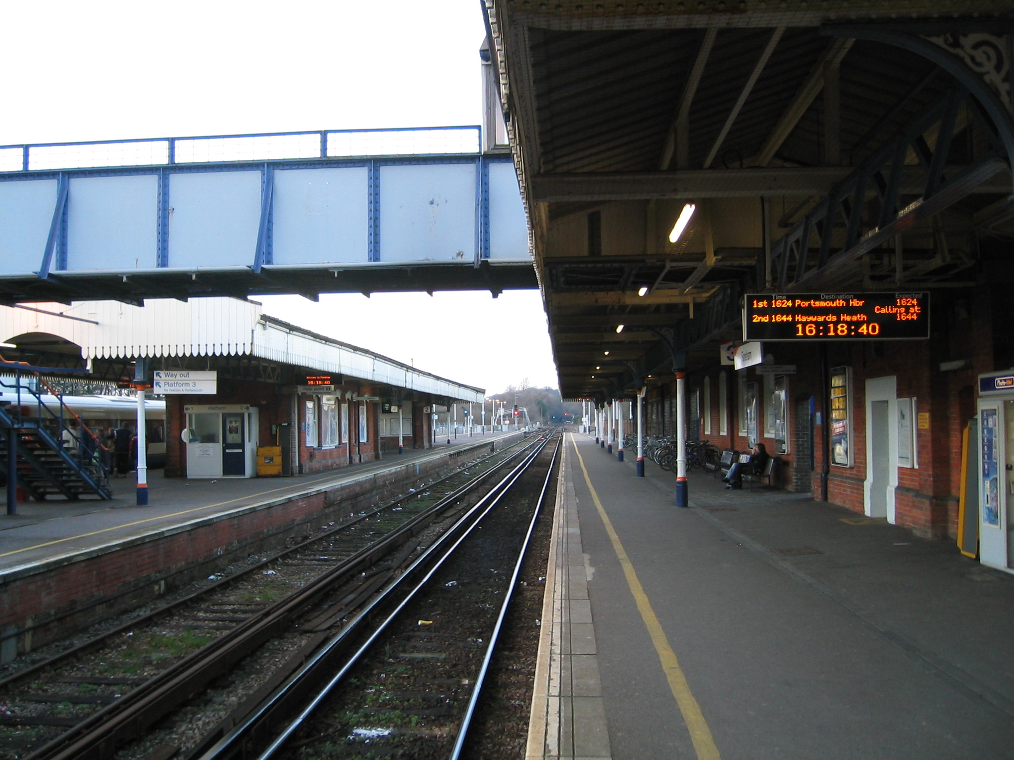 The platforms of Fareham railway station, Fareham, Hampshire, UK. Photo taken by me 2006-01-21.